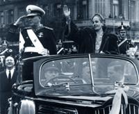 Eva and Juan Perón during his second inaugural parade, June 4, 1952. The vehicle was a 1939 Packard Super Eight Phaeton.